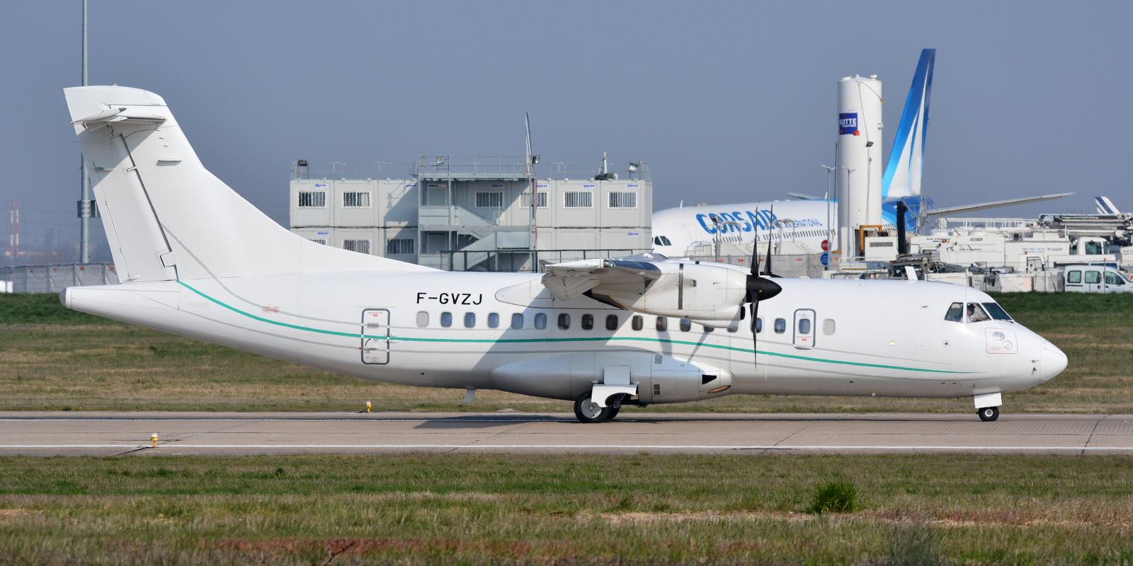 Paris-Orly Airport